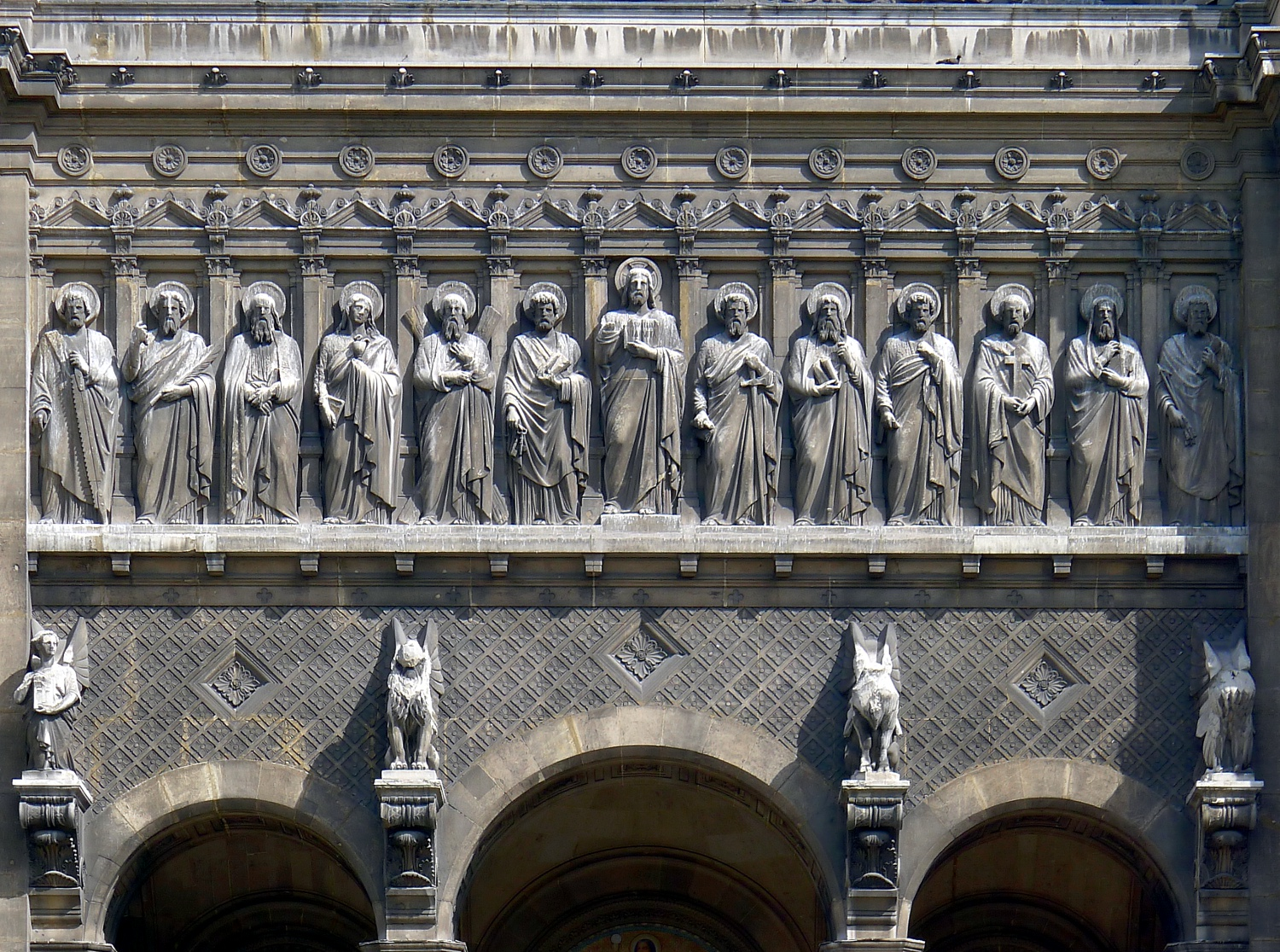 Saint-Augustin church - Paris